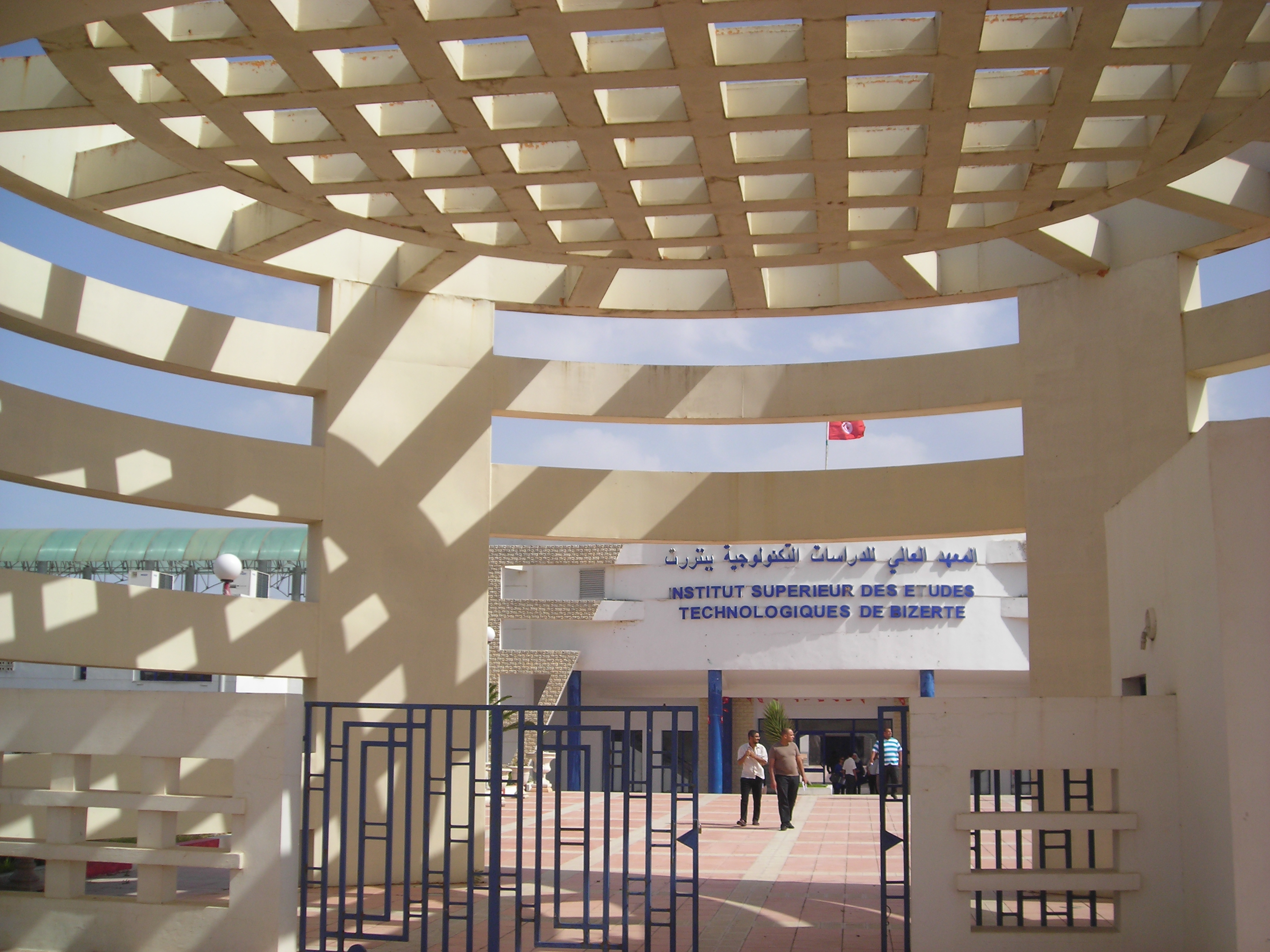 Higher Institute of Technological Studies Bizerte